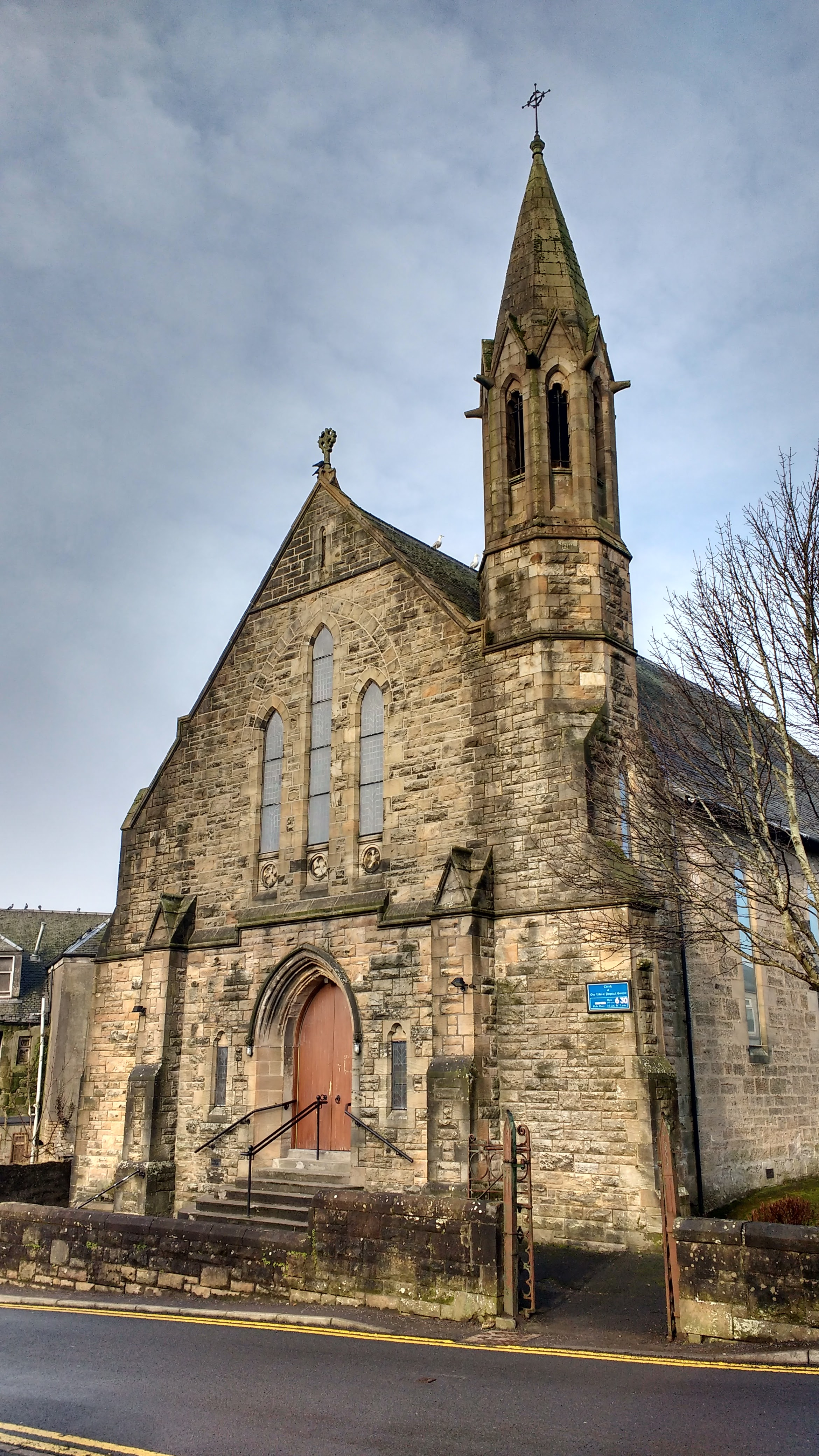 Our Lady of Perpetual Succour RC Church, Mitchell Street, Beith Mitchell Street, KA15 2BD